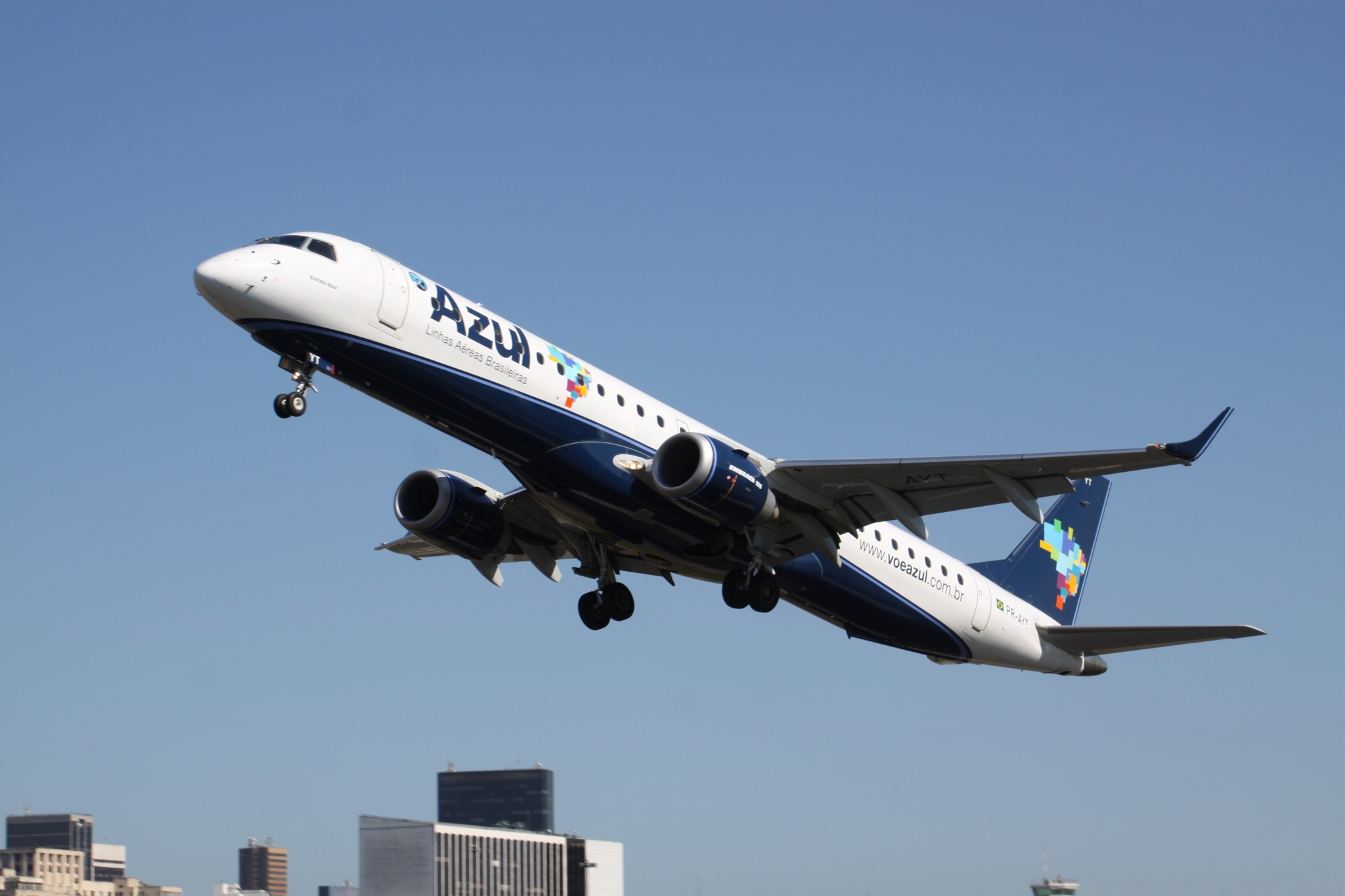 At Santos Dumont